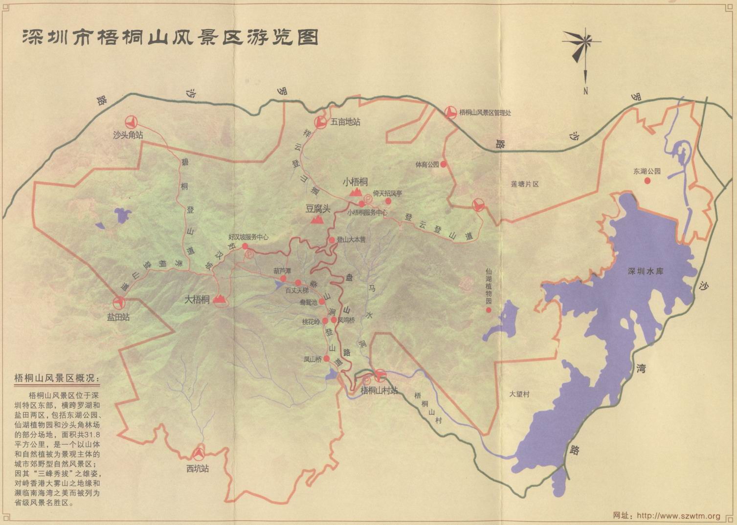 Route of ShenZhen Wutong Mountain